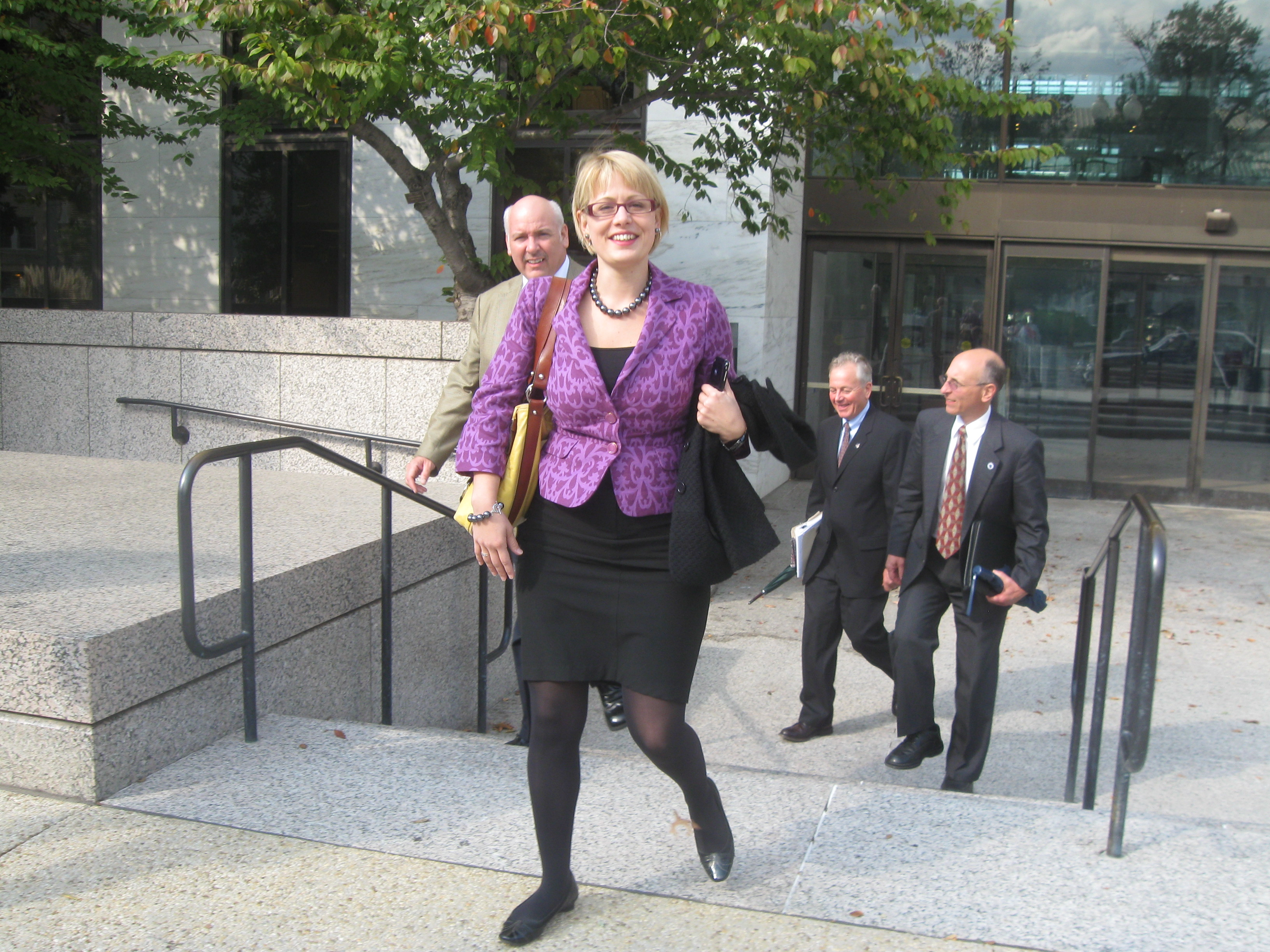 Miss Kyrsten Sinema Arizona State Rep!! Great to see you~~